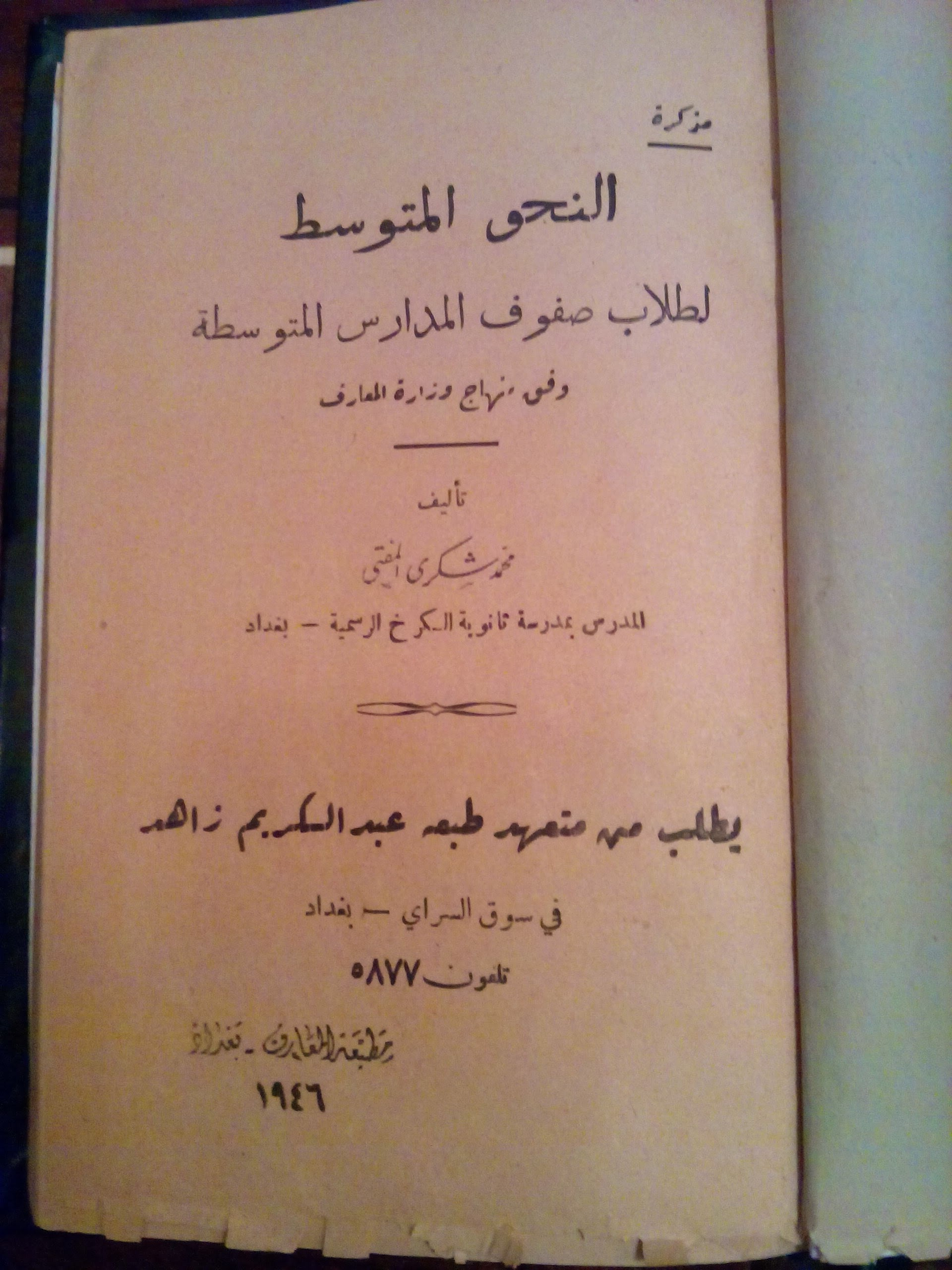 Old book from Baghdad in Arabic Language 1946